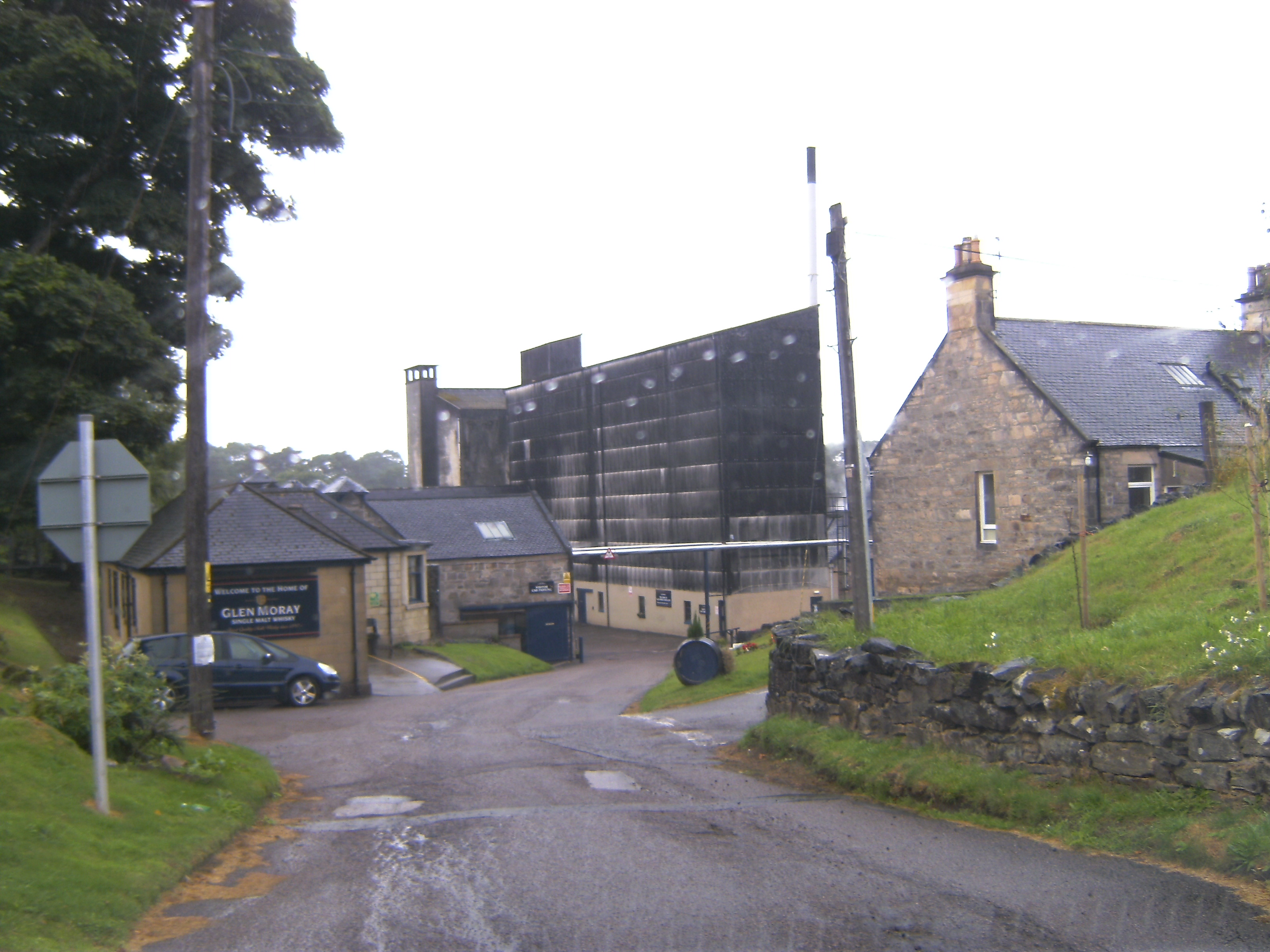 Glen Moray Distillery